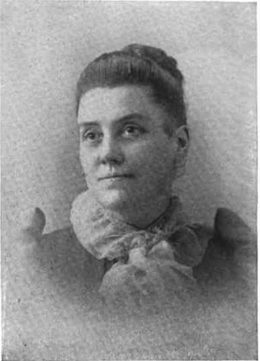 Hannah Johnson Carter